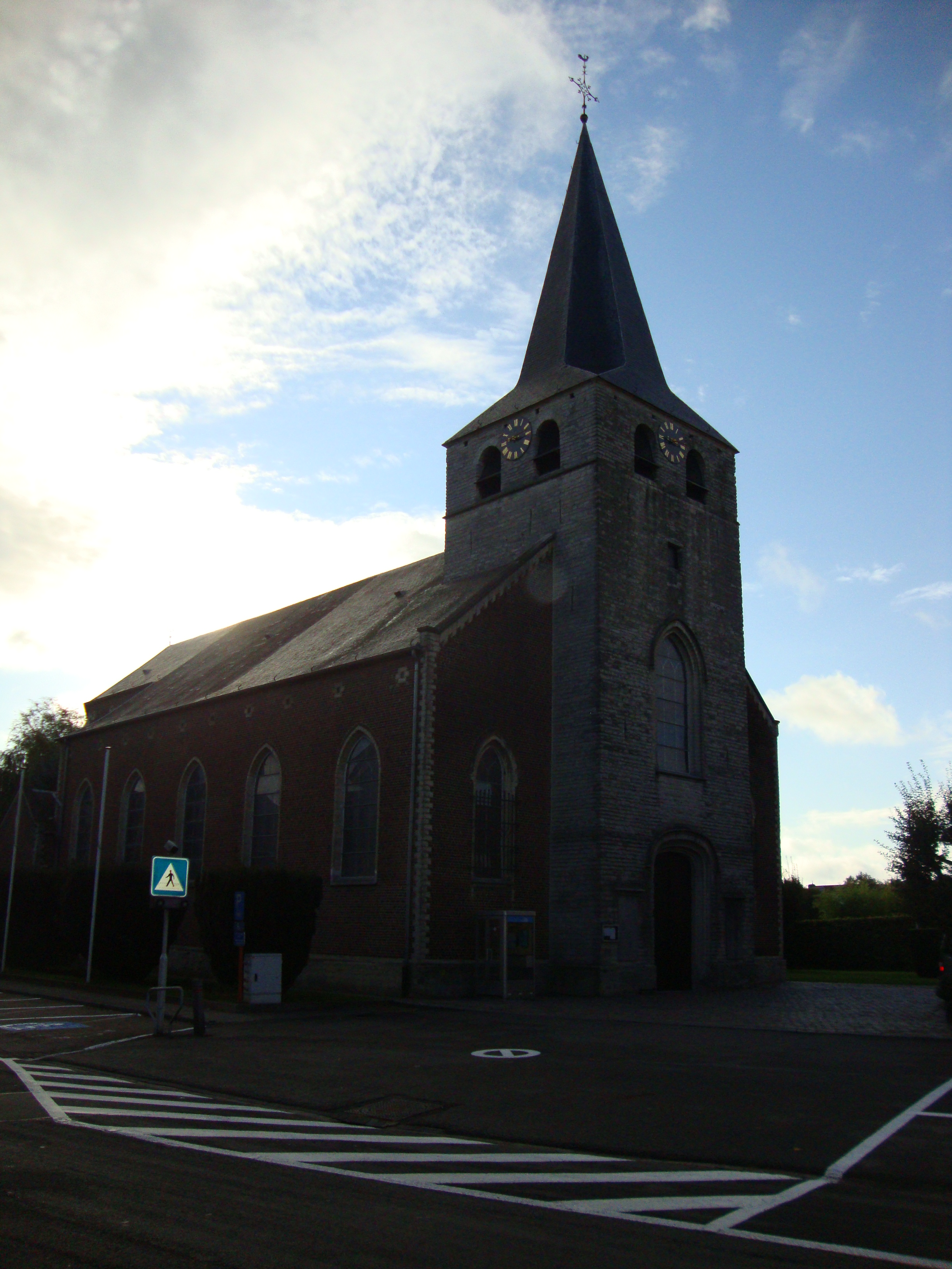 Parish church with parts from 12th, 13th and 19th-century, Veltem-Beisem